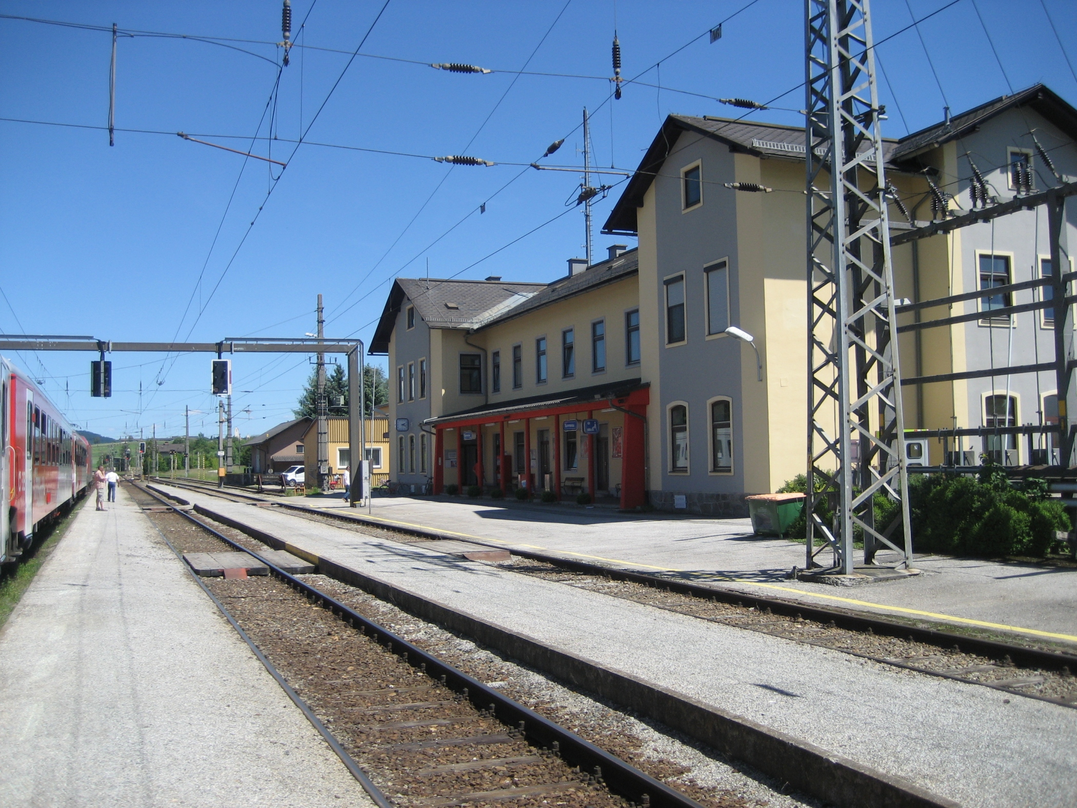 Summerau train station in Upper Austria